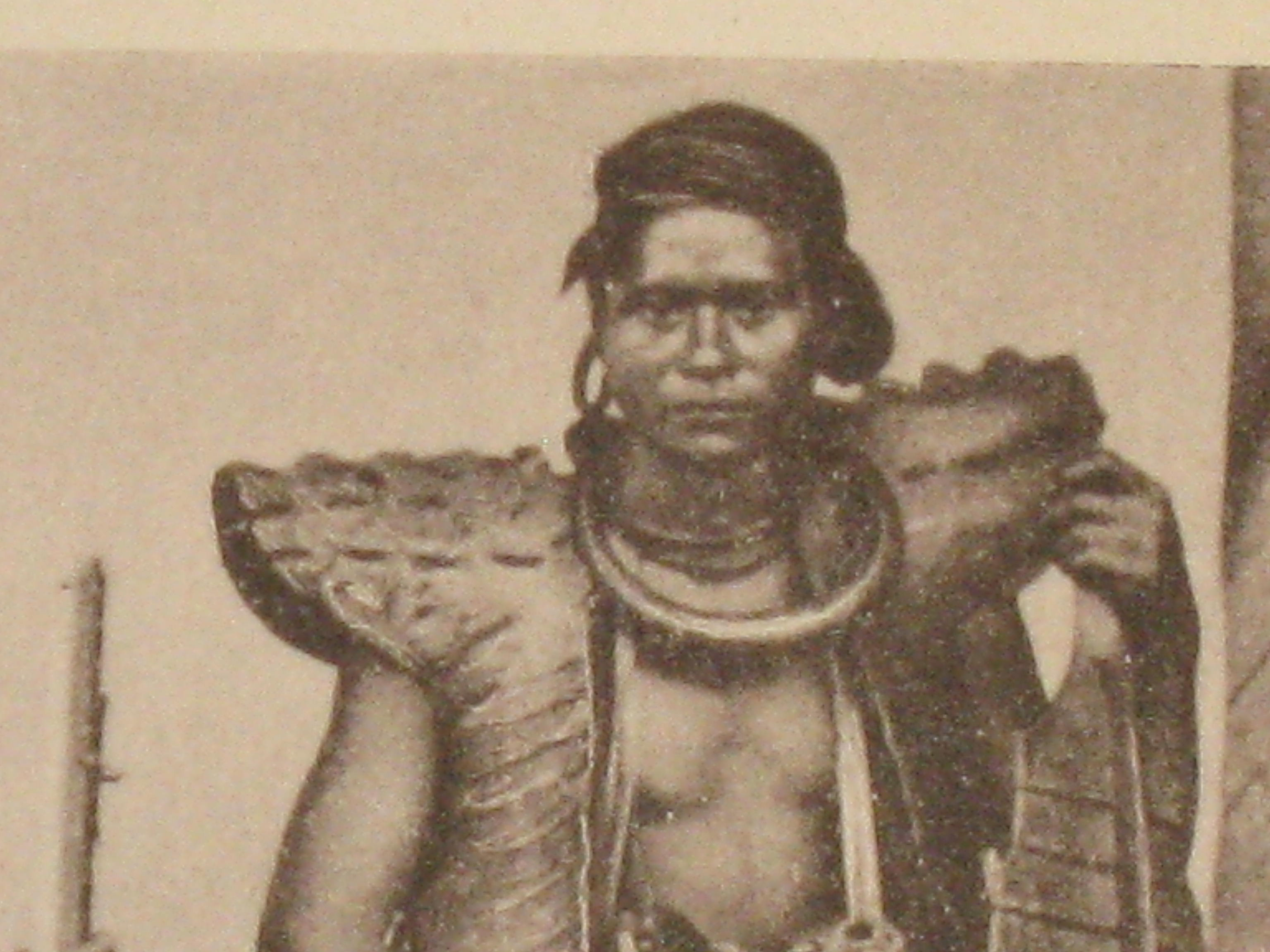 Commander of the warriors of Hili Simaetano